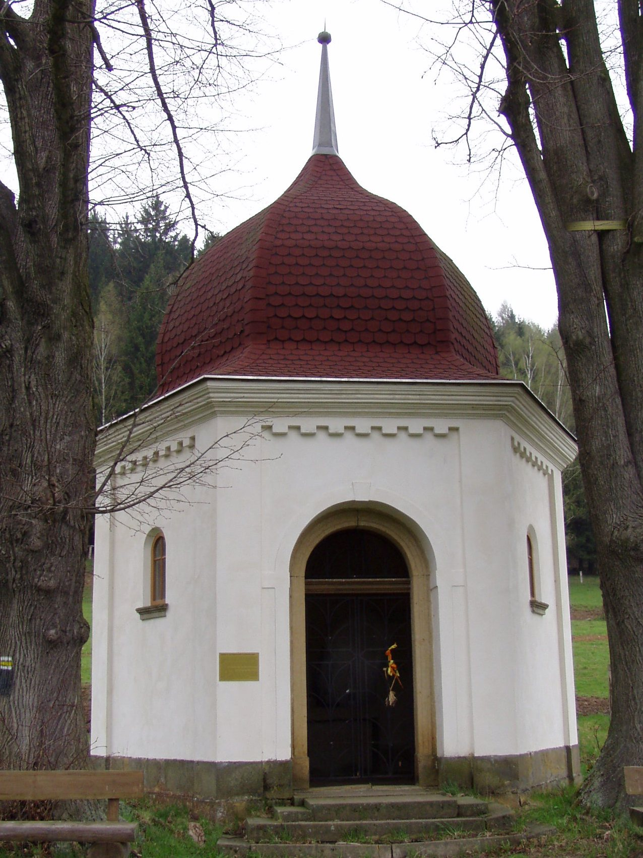 Zdoňov - chapel of Saint John of Nepomuk